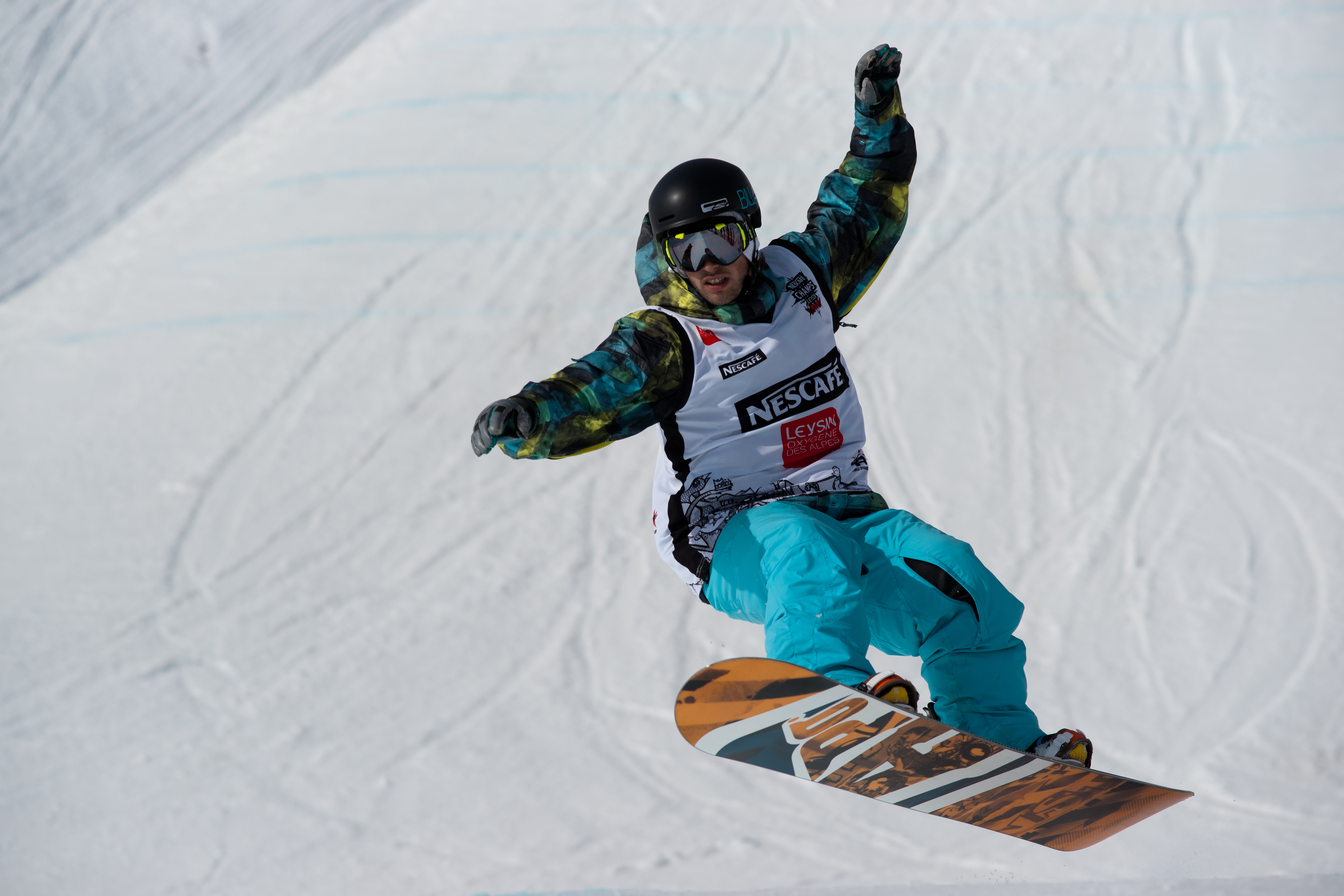 The making of this document was supported by Wikimedia CH. (Submit your project!) For all the files concerned, please see the category Supported by Wikimedia CH. 20th Leysin Nescafe Champs, 8th - 13th February 2011